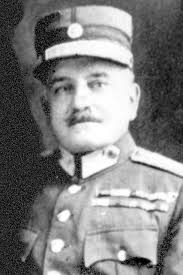 Greek general Dimosthenis Dialetis. Hero of Asia Minor campaign (1919-1922).